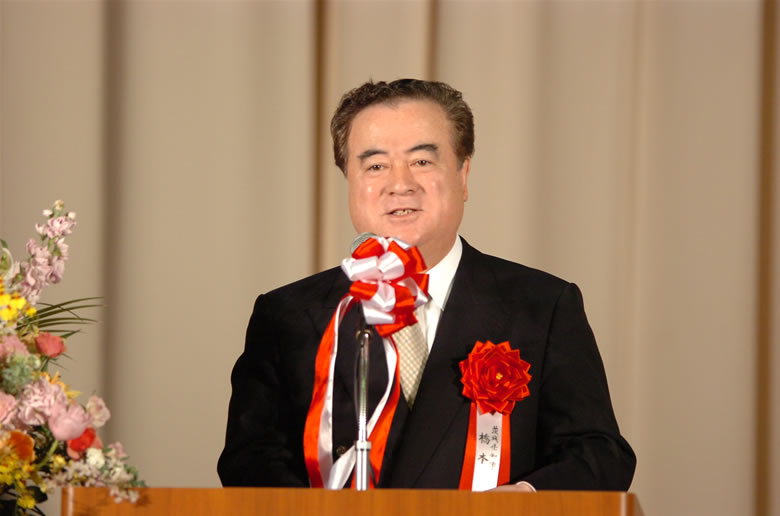 Masaru Hashimoto, Governor of Ibaraki Prefecture, addressed the Opening Ceremony of Tsukubaushiku - Amihigashi, Ken-Ō Expressway at Ami Townsman Gymnasium in Ami Town, Inashiki District, Ibaraki Prefecture on March 10, 2007.